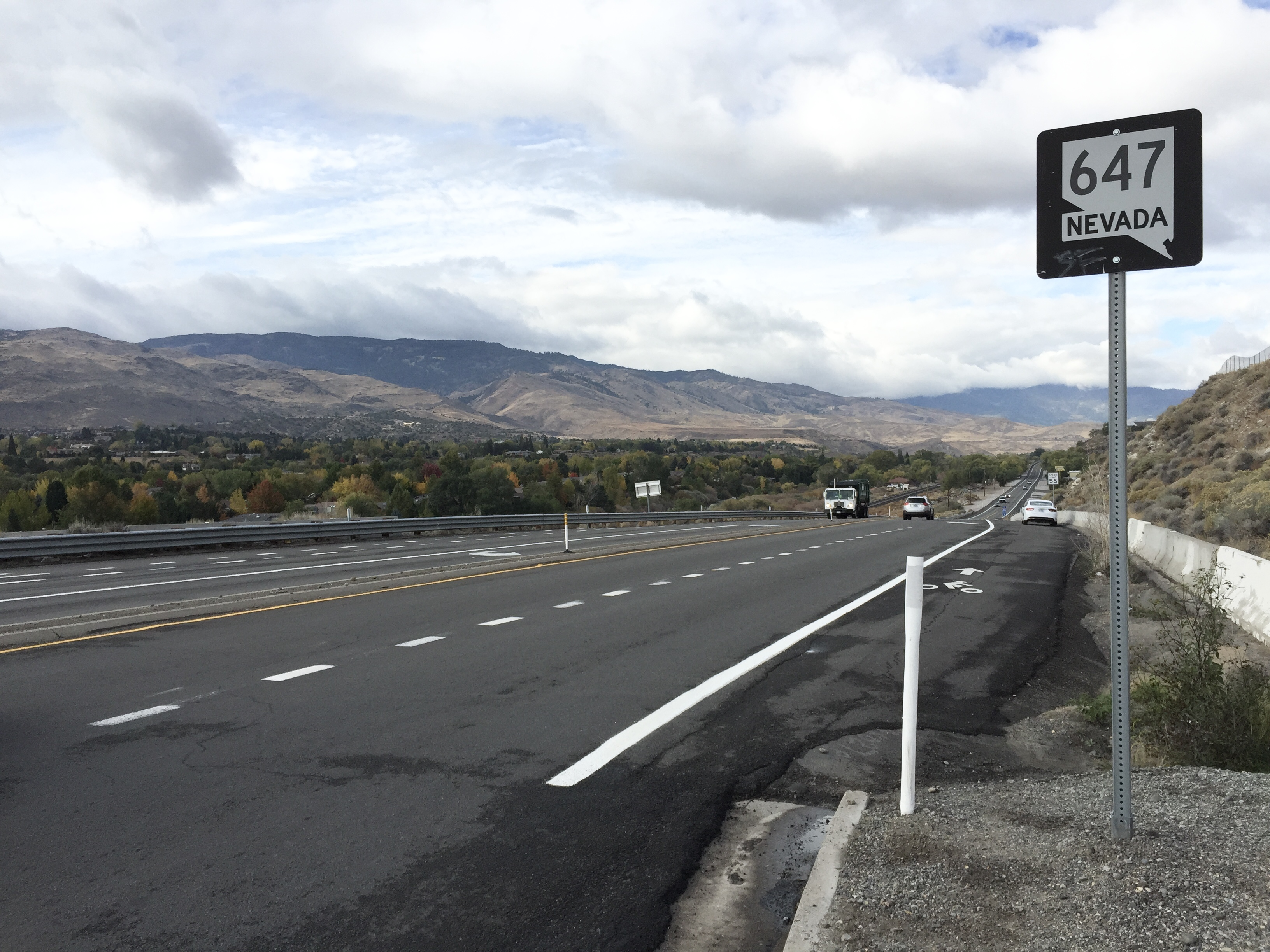 View west from the east end of Nevada State Route 647 (West 4th Street) in Reno, Nevada